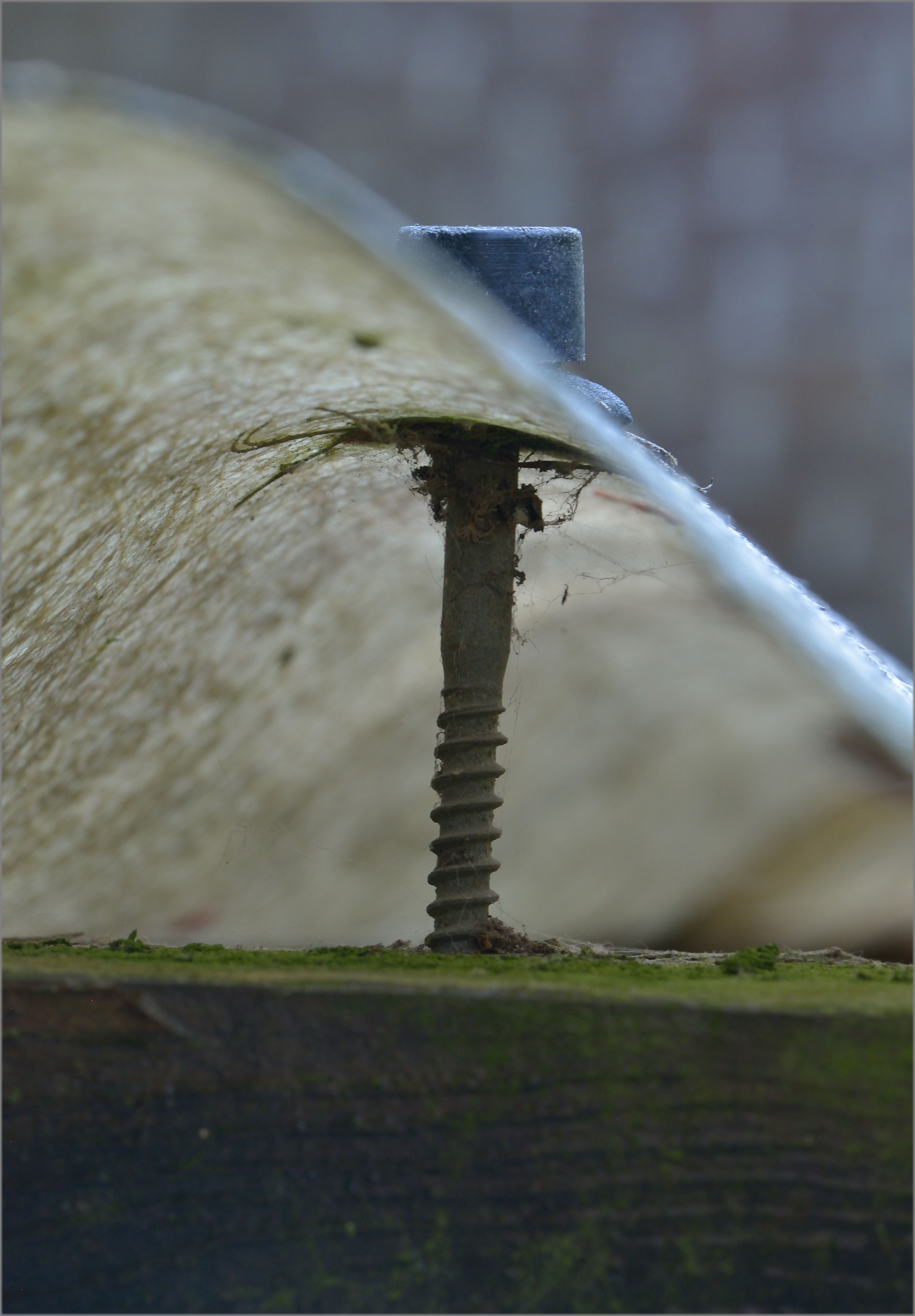 Lag bolt, Polyester fibre strengthen corrugated slates